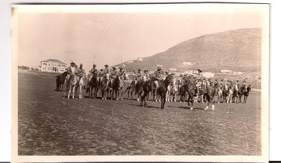 Mounted Palestine Policemen being inspected, Nablus. Circa 1943.